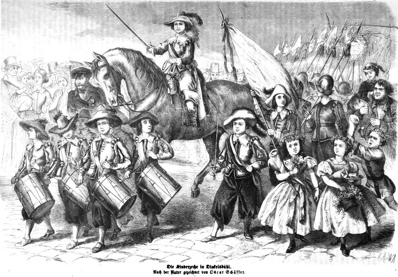 caption: "Die Kinderzeche in Dinkelsbühl.Nach der Natur gezeichnet von Oscar Schäffer."